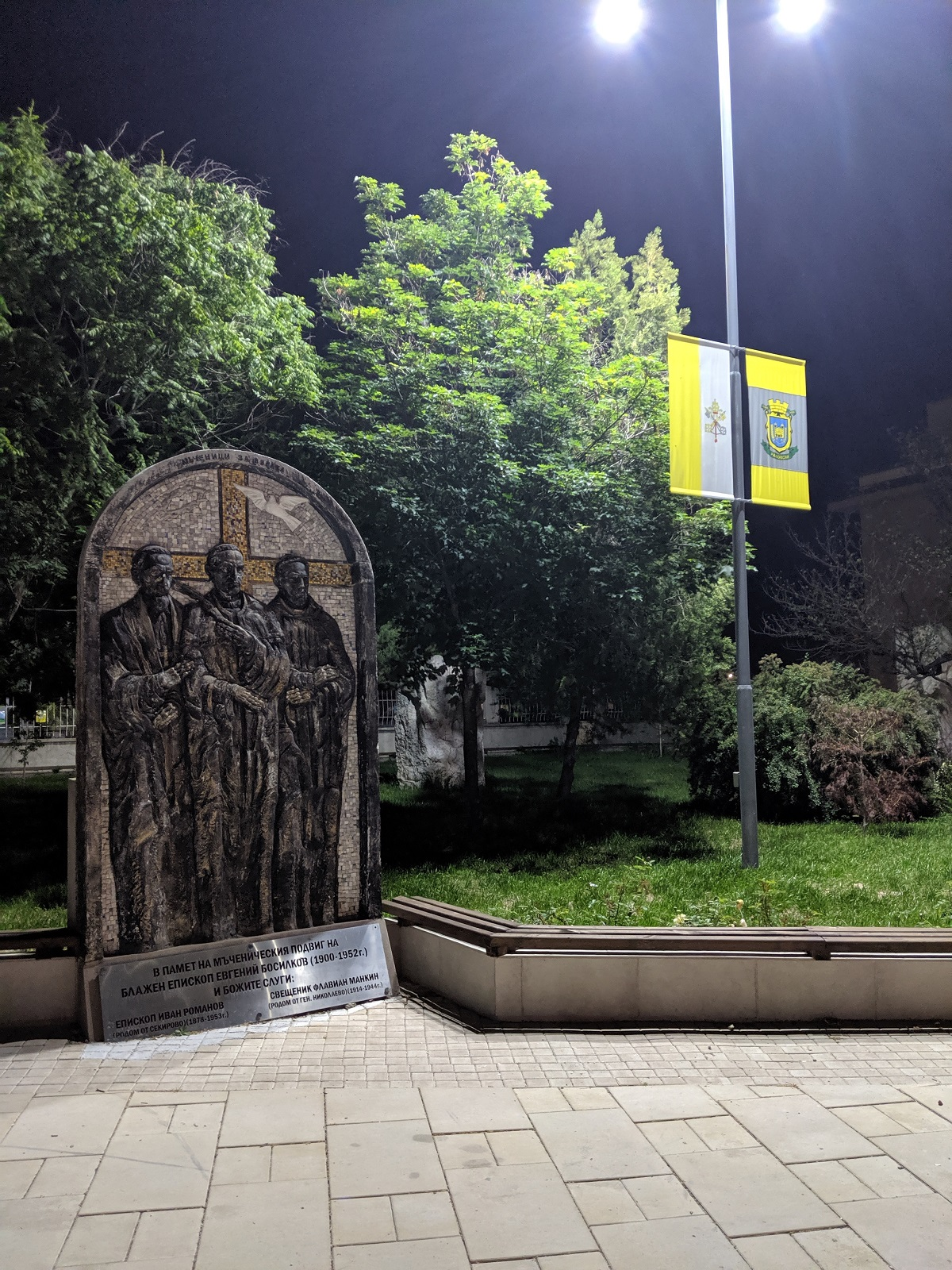 Bulgaria Square in Rakovski (night view)